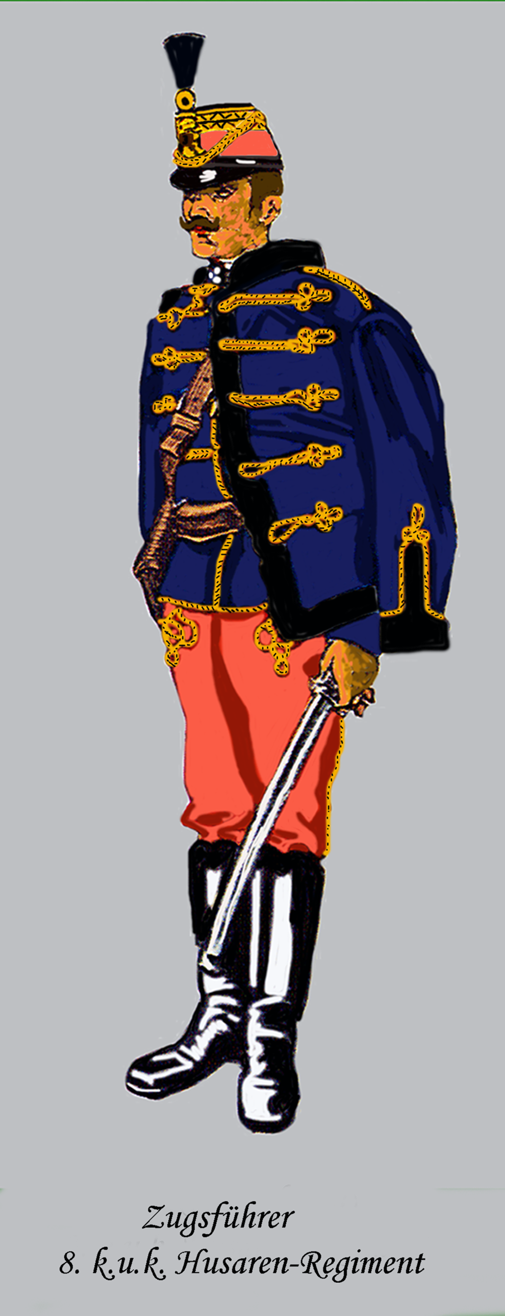 Sergeant of the 8th Austria-Hungarian Hussars-Regiment with fur coat. Uniformstyle in use until about 1916